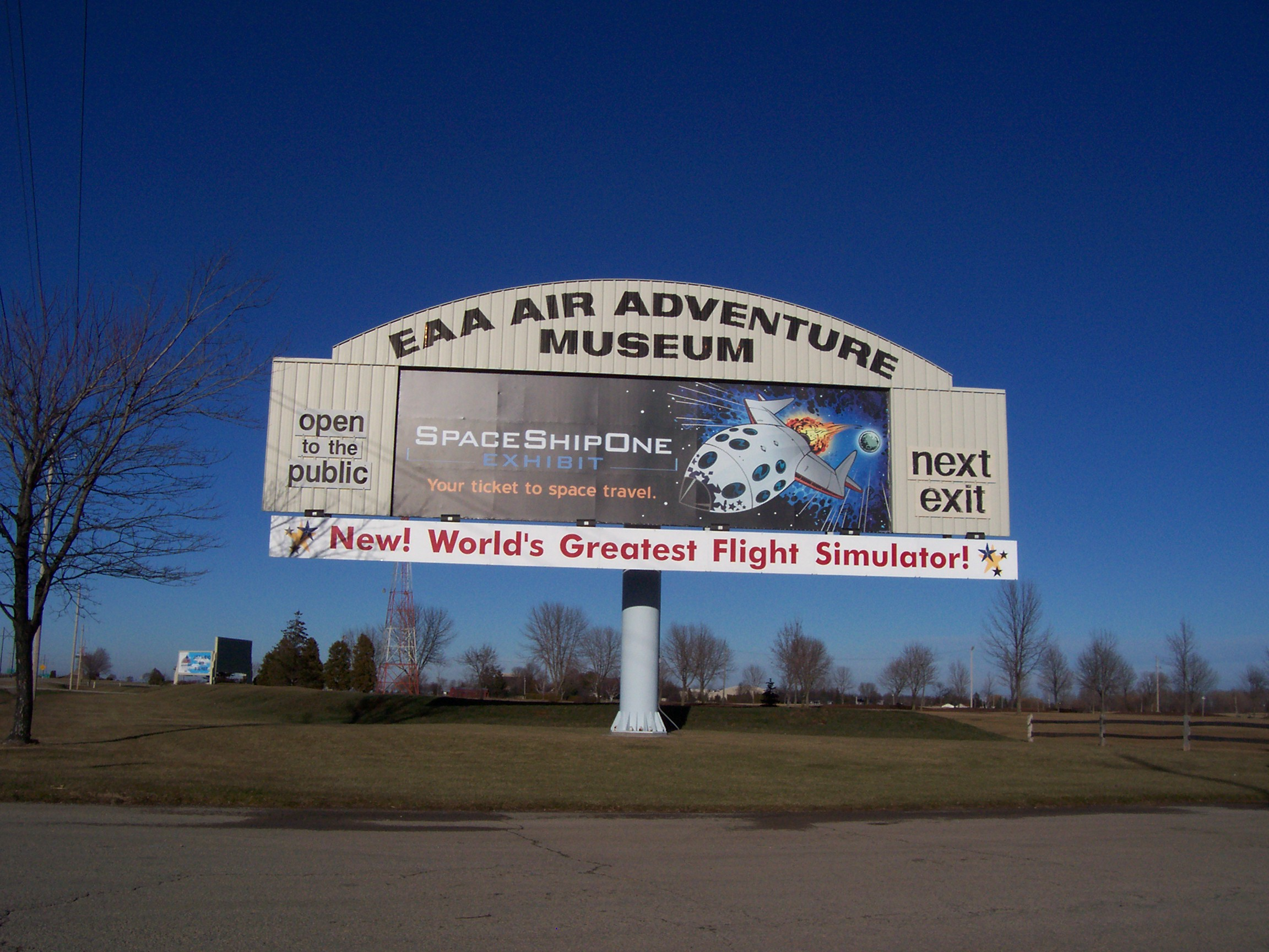 The U.S. Route 41 sign for the Experimental Aircraft Association (EAA) Air Adventure Museum in Oshkosh, Wisconsin, USA.